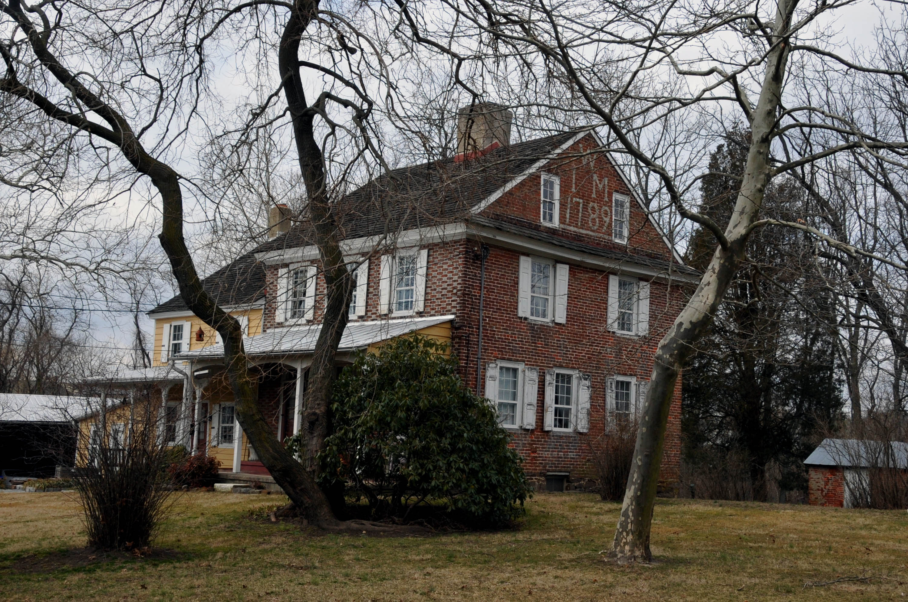 BUILT IN 1789; THE FAMILY WERE QUAKERS AND RELATED TO THE LIPPINCOTTS; THE INITIALS ARE DISPLAYED IN THE BRICK AT THE EAST END OF THE HOME WHICH IS COMMON IN 18TH HOMES IN THE BURLINGTON-CAMDEN AREA THIS HOUSE IS LISTED ON THE NATIONAL REGISTRY